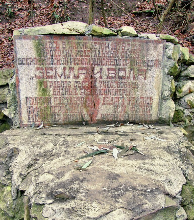 Memorial stone is established at the place of the last meeting of russian organization "Land and Liberty". Russia, Voronezh, Dinamo park.